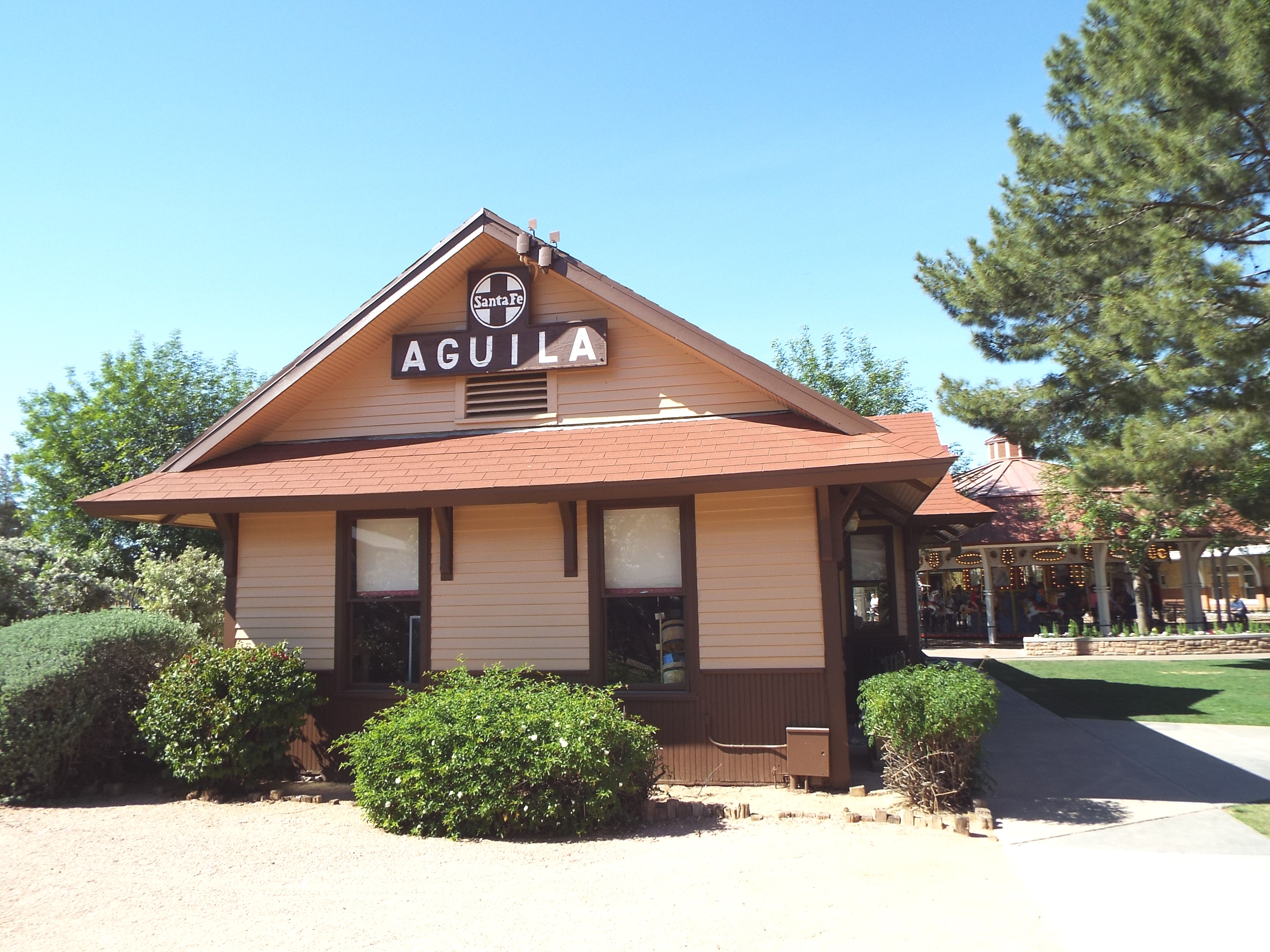 The Aguila Depot, built in 1907 by the Santa Fe, Prescott and Phoenix Railway and moved to the McCormick-Stillman Railroad Park in Scottsdale, Arizona